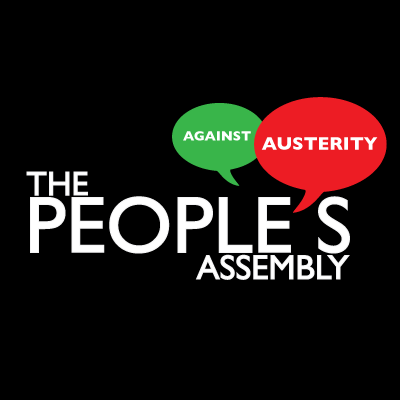 People's Assembly Logo 2013